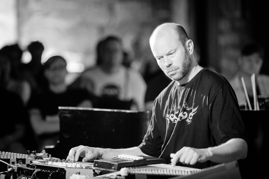 Christian Wallumrød with Magda in Smeltehytta. The concert was part of Kongsberg Jazzfestival and took place on 07. July 2018 in Kongsberg. Lineup:Magda Mayas (clavinet and piano)Christian Wallumrød (keyboard)